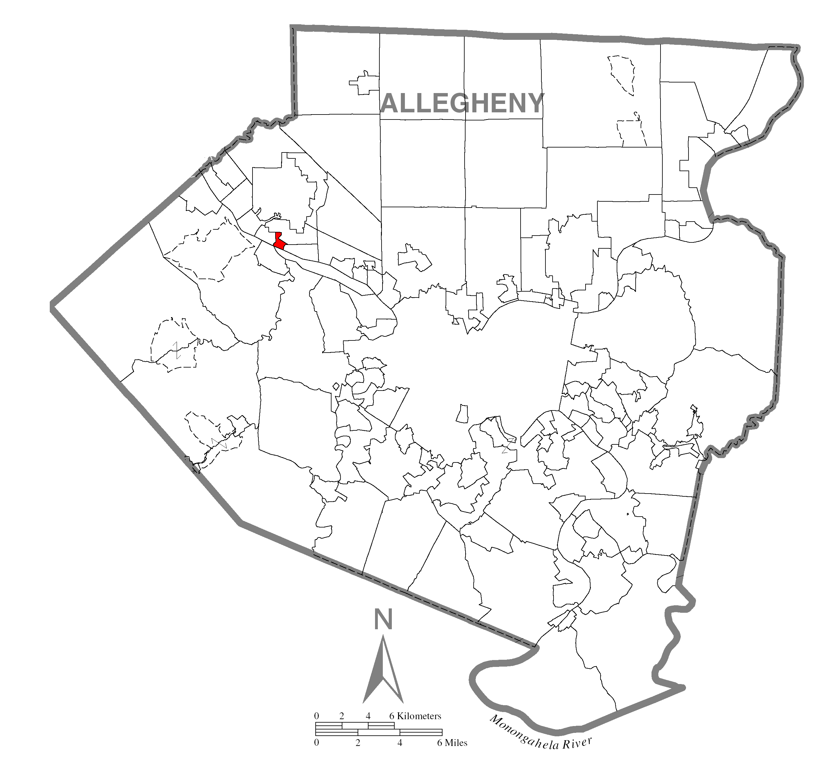 A map of Allegheny County showing Haysville, Pennsylvania (alternate) highlighted on the map.